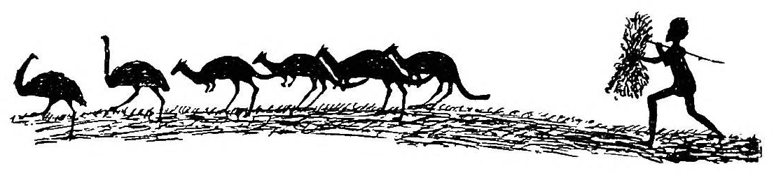 image from page 19 of "Australian Legendary Tales" by K. Langloh Parker